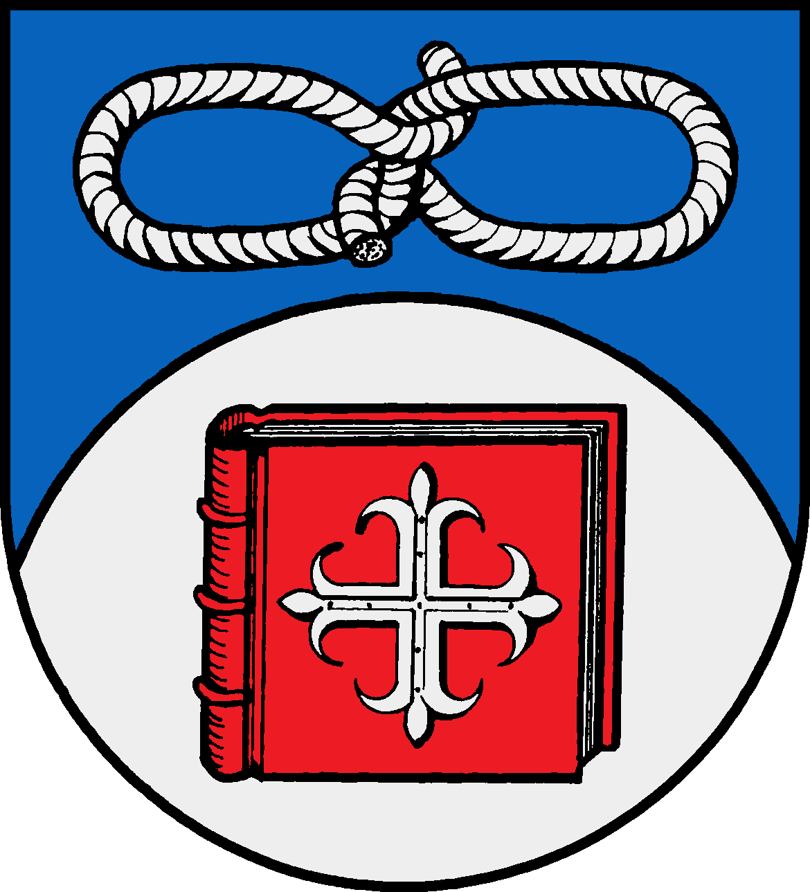 Coat of arms of the municipality Blekendorf in Schleswig-Holstein, Germany.